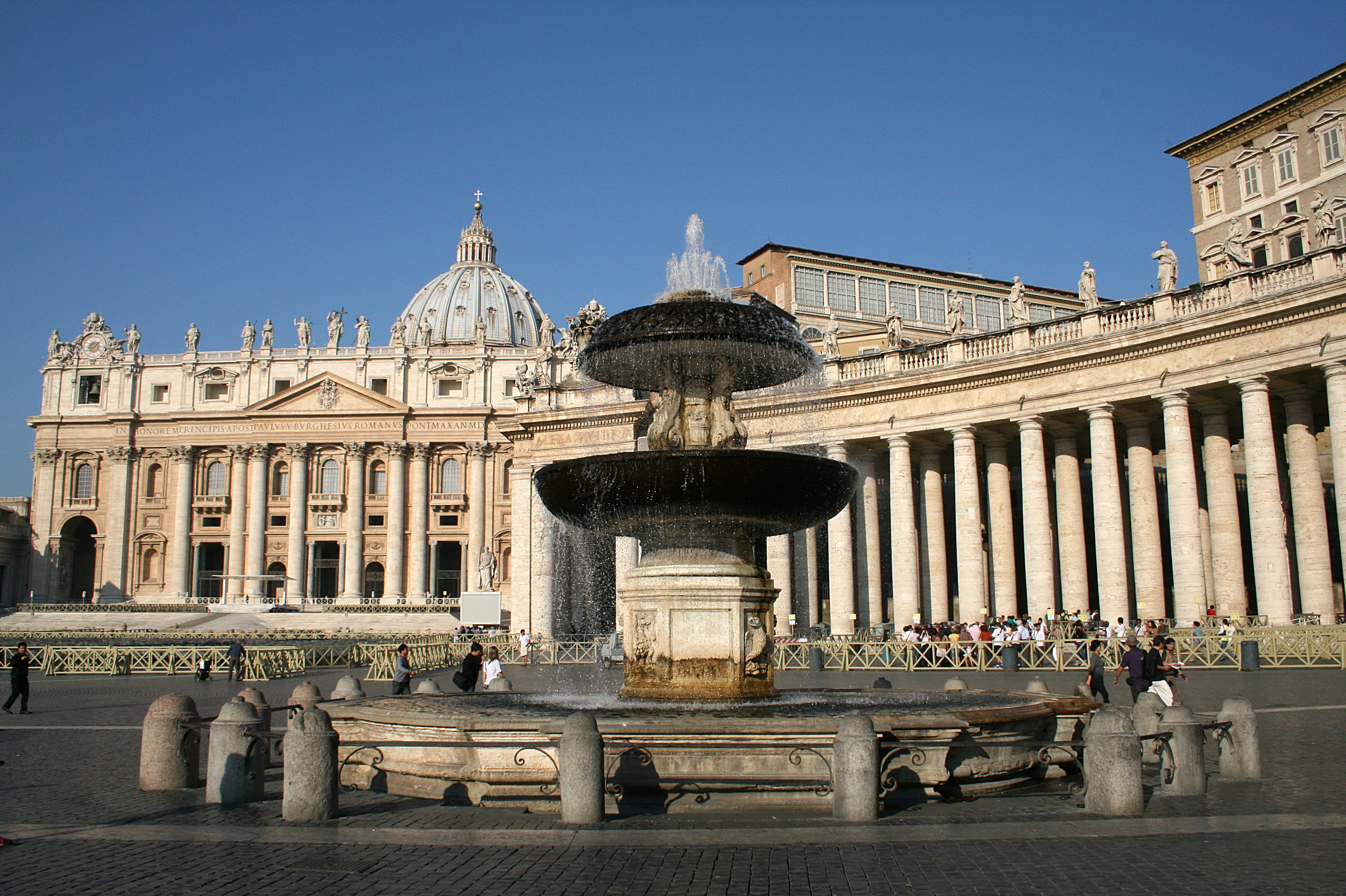 The " Antic fountain" built in 1614 by Carlo Maderno before the St. Peter's Basilica in Vatican.